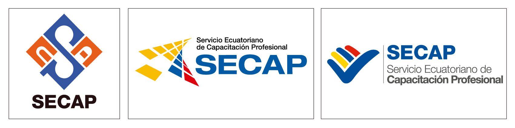 Corporate image of the secap, logos used in the years 1967 to 2014, from 2014 to 2016, and to the present